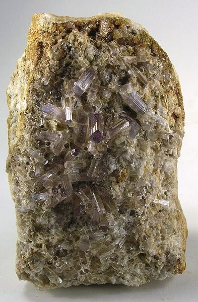 Scapolite Locality: Badakhshan (Badakshan; Badahsan) Province, Afghanistan (Locality at ) Size: 8.9 x 6.3 x 5.0 cm. A stunningly rich specimen of GEM PURPLE SCAPOLITE crystals from the amazing find in Afghanistan. Most of these you have seen have probably been single crystals, and not on matrix. There are dozens of crystals here, and many fine ones are grouped together in one area. They are absolutely pristine, lustrous and terminated gem crystals. The matrix has been sawn on the bottom to remove the specimen. The crystals measure to one centimeter in length.